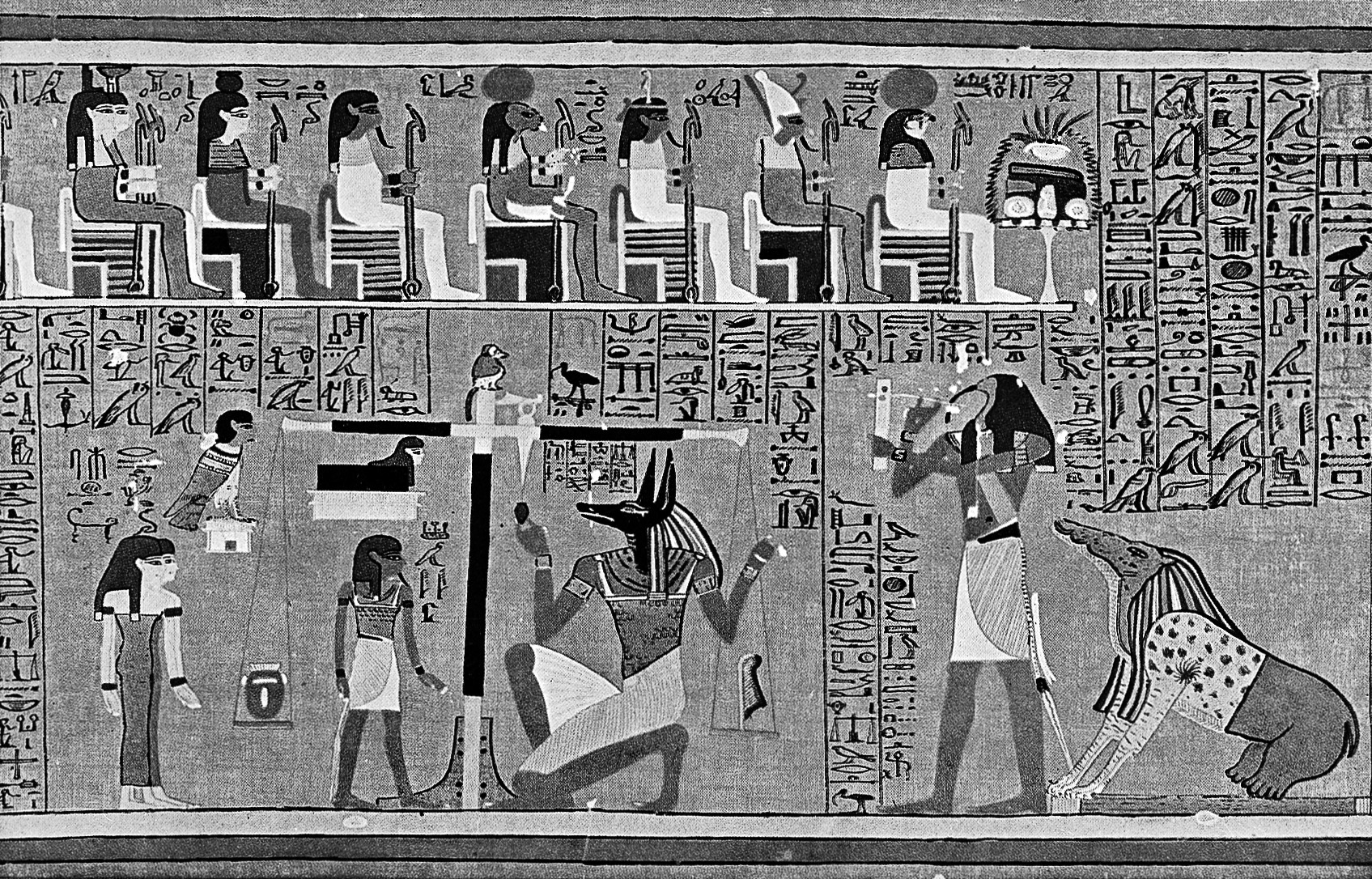 Weighing of the heart by Osiris, god of the Egyptian Underworld. General Collections Keywords: Deities; Egypt; Death; Osiris